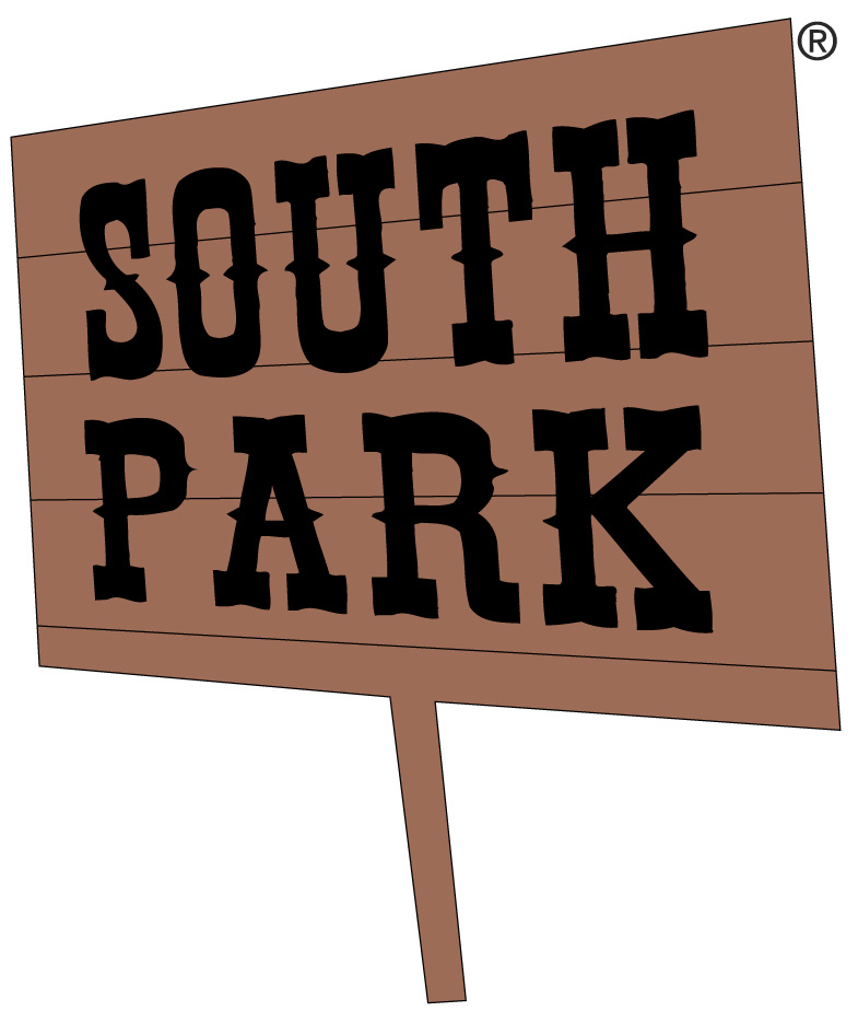 south park logo